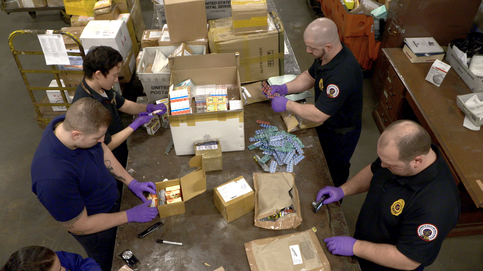 Packages for FDA review at JFK IMF. The FDA’s activities at the International Mail Facilities (IMF) are intended to provide a front line defense against unapproved drugs entering the United States. With staff assigned to all nine IMFs throughout the U.S., Puerto Rico and the U.S. Virgin Islands, FDA investigators are responsible for monitoring mail importations of FDA regulated products by conducting comprehensive examinations of suspect packages.